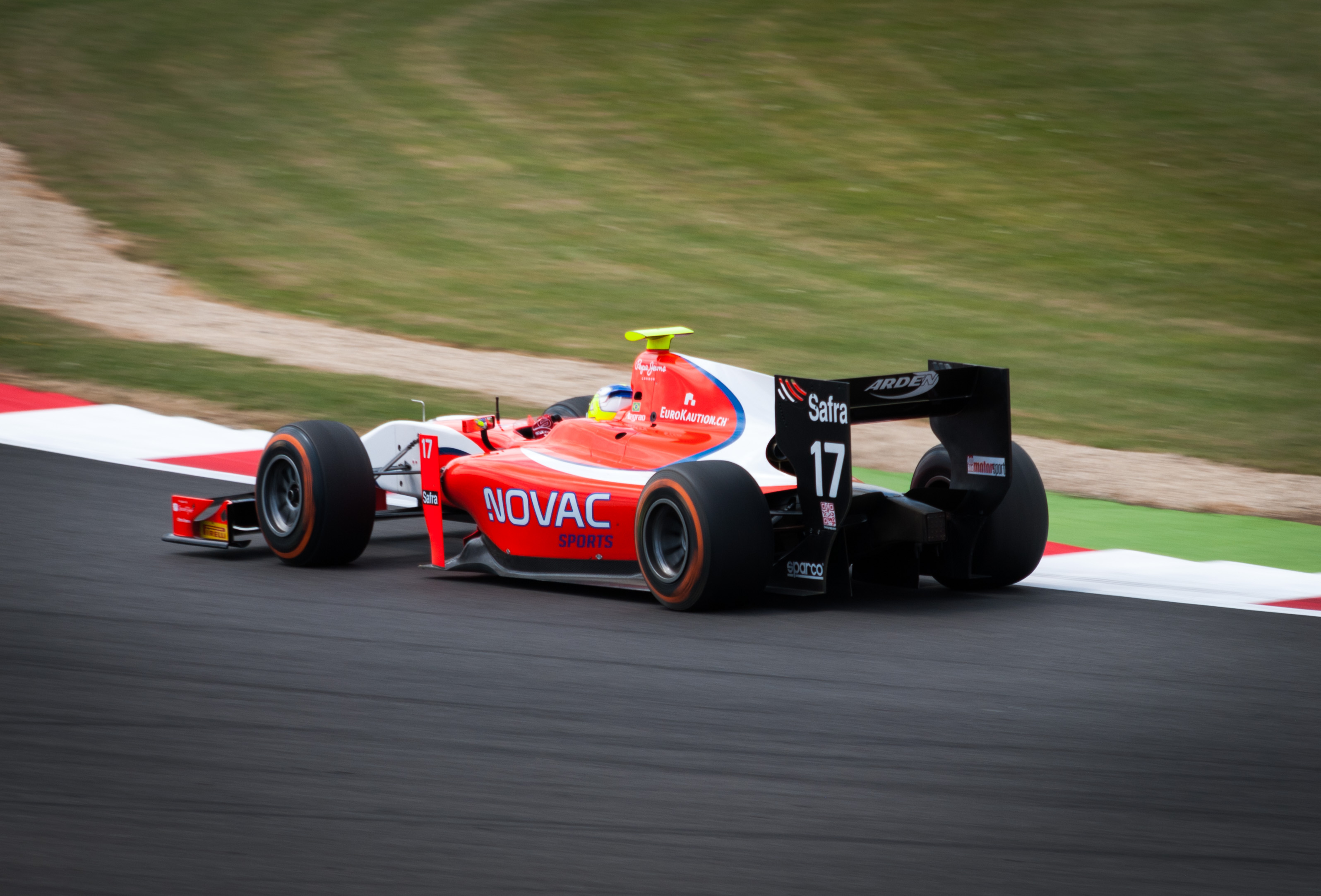 André Negrão driving for Arden International at Silverstone. Round 5 of the 2014 GP2 Series Championship.